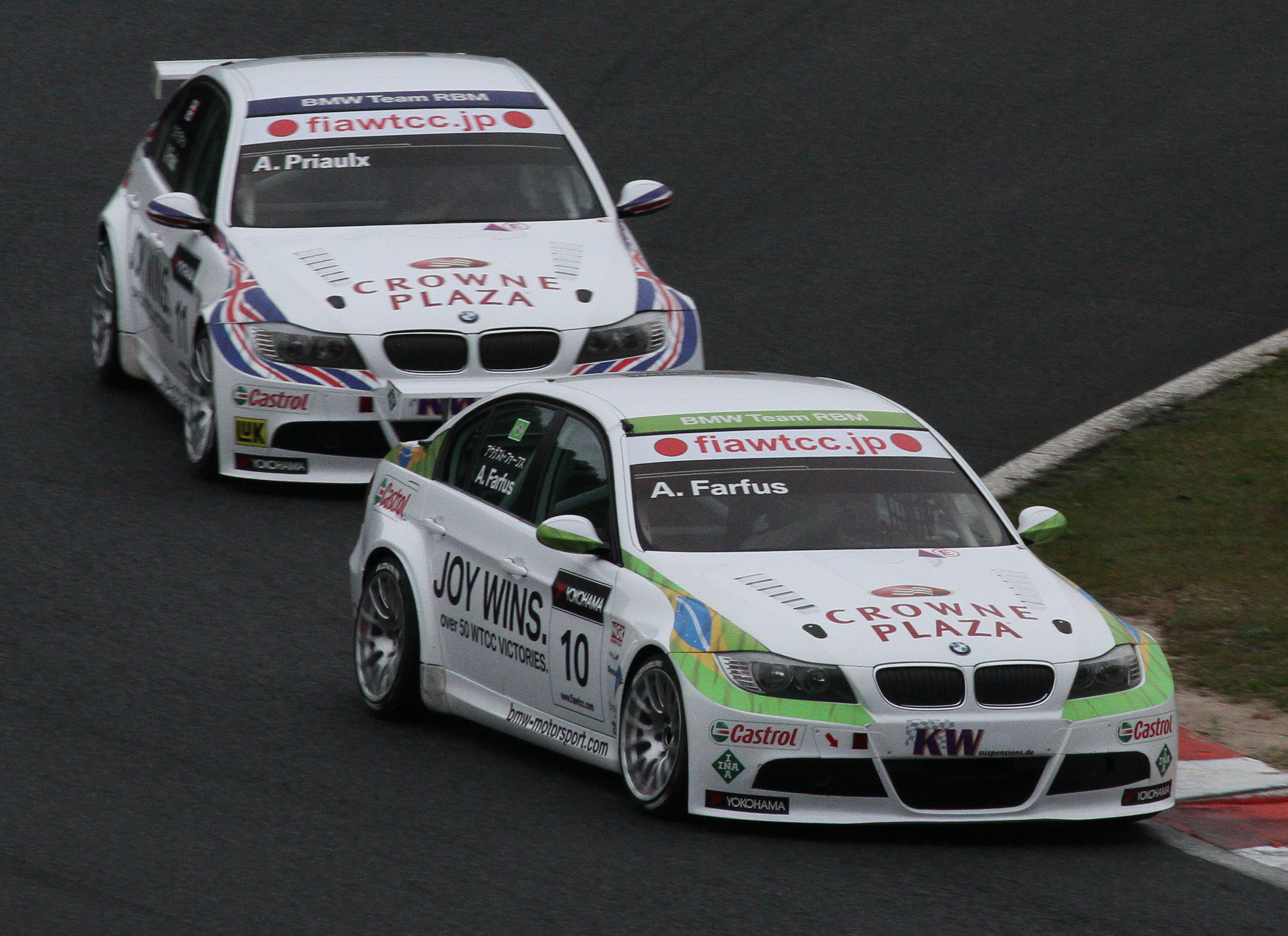 World Touring Car Championship 2010 Race of Japan: Augusto Farfus (BMW Team RBM) slipstreaming his team mate Andy Priaulx during the 2nd qualify session on Saturday.